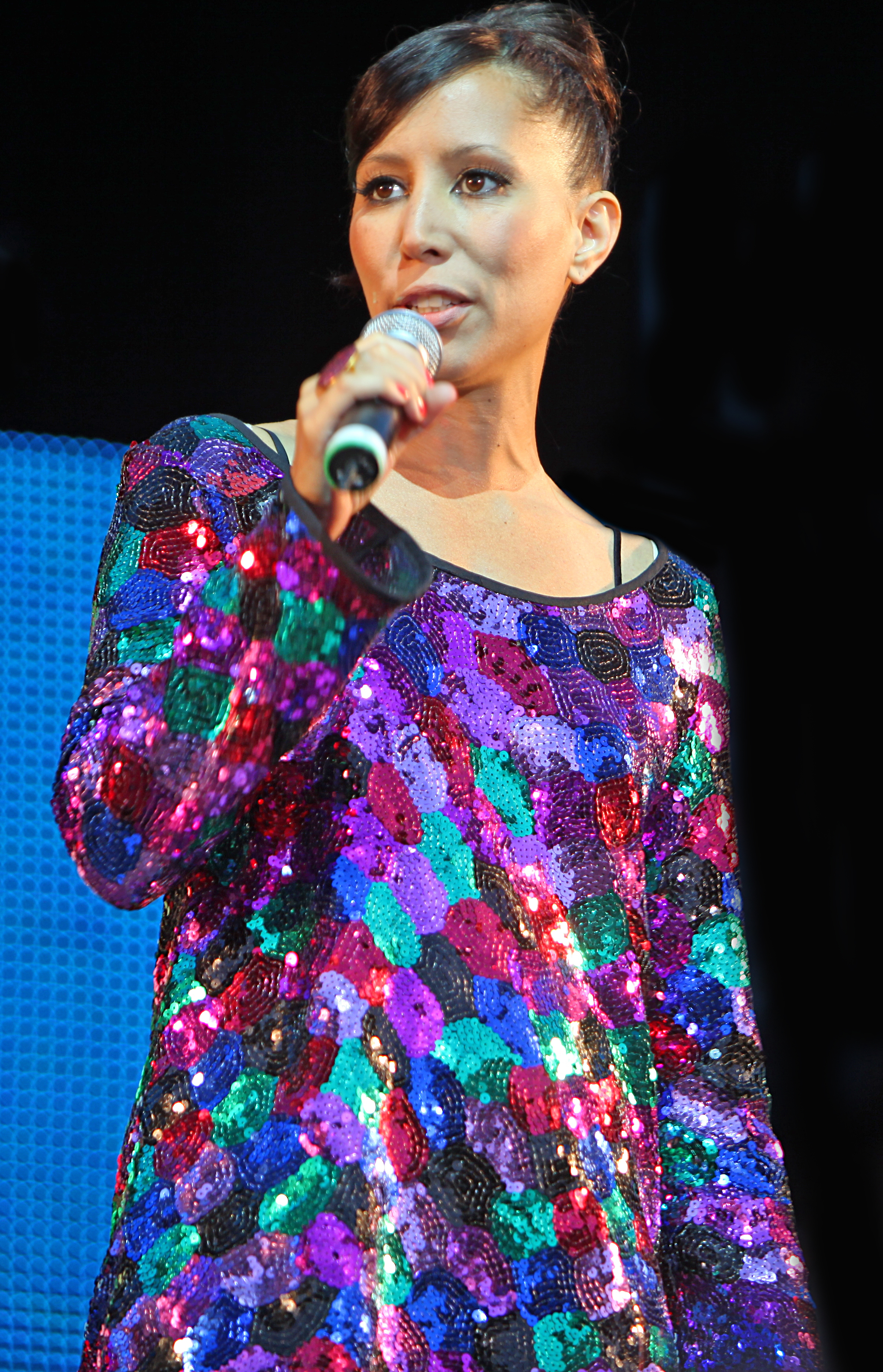 Titiyo at Stockholm Pride 2009.